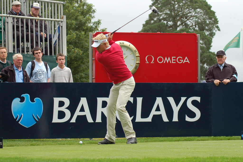 Peter Hedblom at the Scottish Open near Loch Lomond in 2006.